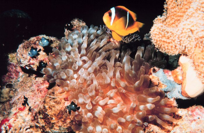 Entacmaea quadricolor with Amphiprion bicinctus and Dascyllus trimaculatus Public-Domain-Bild von (NOAA) National Oceanic and Atmospheric Administration. Image ID: reef2124, The Coral Kingdom Collection Location: Gulf of Aqaba, Red Sea